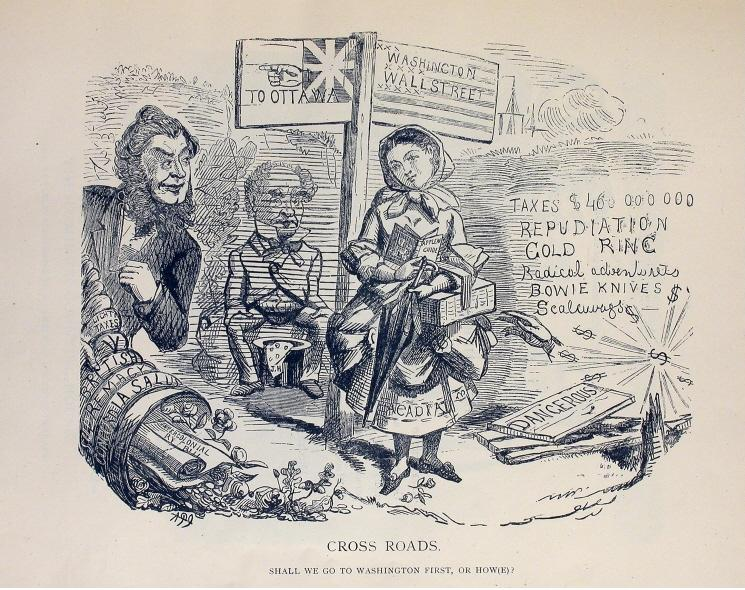 "Cross Roads - Shall we go to Washington first, or How(e)?". Cartoon depicting Charles Tupper and Joseph Howe, two 19th century political leaders of Nova Scotia. Sir Charles Tupper was a pro-Confederation politician in Nova Scotia (serving as Premier of Nova Scotia from 1864 to 1867 and as Prime Minister of Canada in 1896), and he is often credited with having done more than any other public figure to induce his native province to enter Confederation in 1867. Joseph Howe (premier of Nova Scotia from 1860 to 1863, a member of the Canadian federal cabinet from 1869 to 1873, and the Lieutenant-Governor of Nova Scotia in 1873) was the leader of the anti-Confederate movement in Nova Scotia. Although Howe never favoured any form of union with the United States for Nova Scotia (in fact, by 1868 he recognized the futility of ongoing efforts to repeal Confederation), he was suspected in some quarters of a preference for annexation to the United States. In the cartoon, Nova Scotia (depicted as a young woman named "Acadia") is shown choosing between two options (represented by Tupper and Howe), with the artist showing that the advantages are all in the way that leads "to Ottawa".